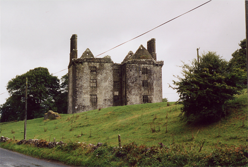 I took this photo myself